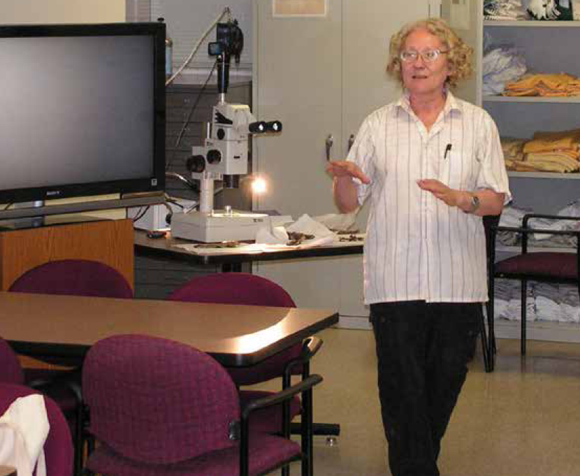 Dr. Larissa Vassilyeva in the USA